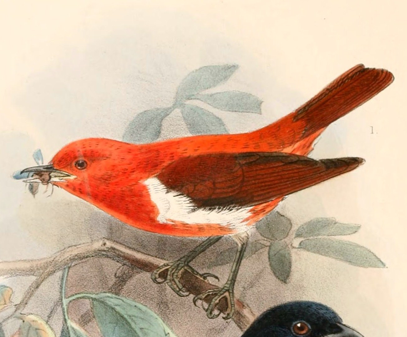 « Nemosia rosenbergi » = Chrysothlypis salmoni (Scarlet-and-white Tanager)